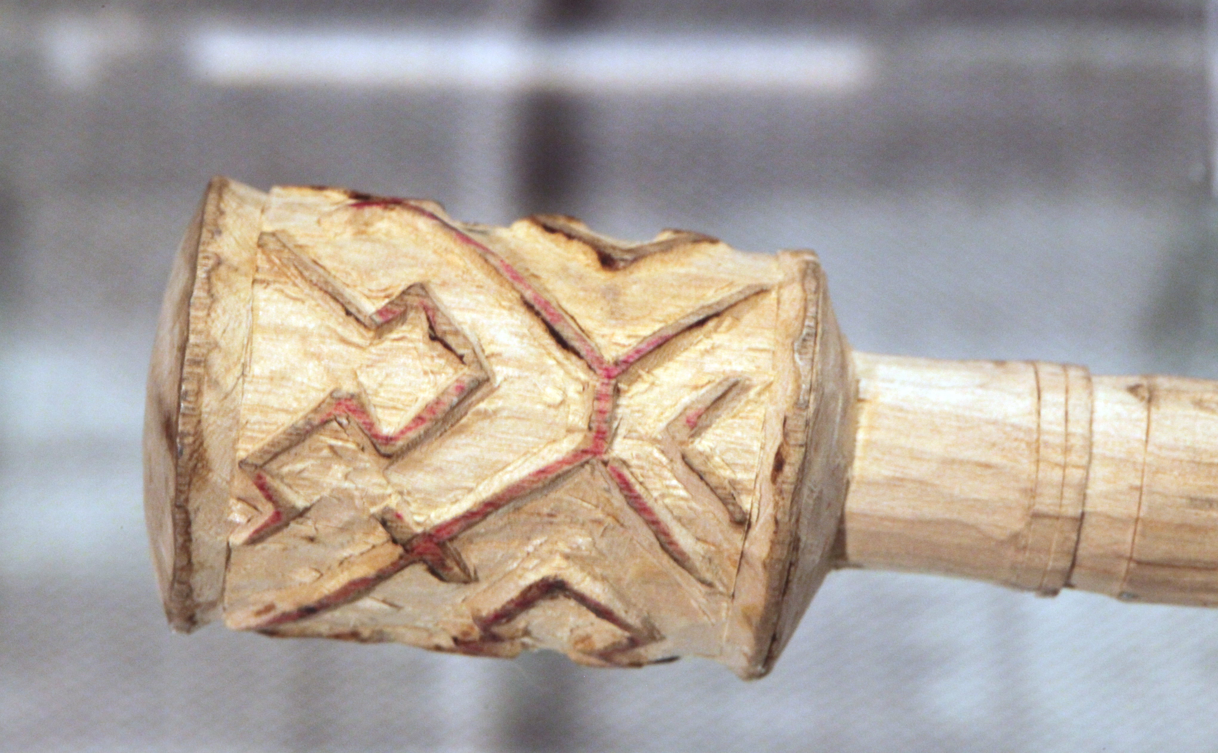 Shipibo-Conibo rolling stamp, used for makeup.